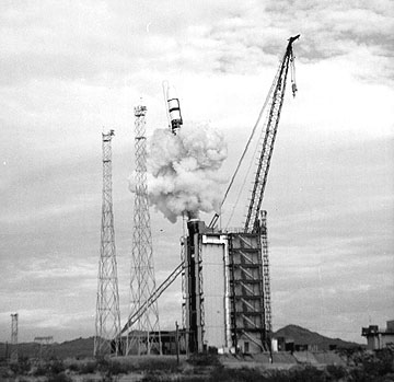 The mock MX missile starts its ascent.